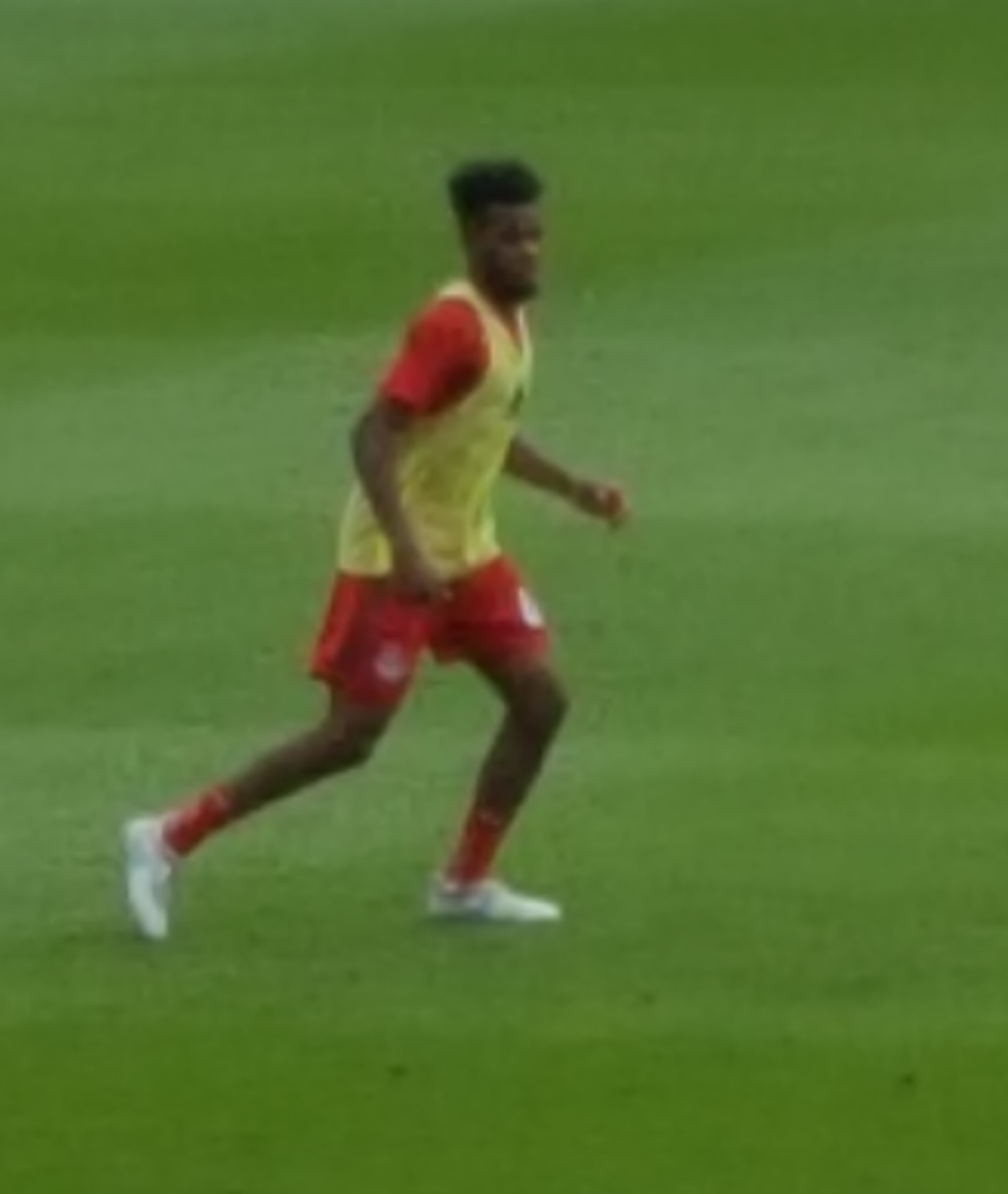 Canadian soccer player Raheem Edwards warming up for a game against the Colorado Rapids for Toronto FC on July 22, 2017